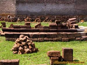 What is left of Bonjongmenje temple near Bandung, West Java province, Indonesia